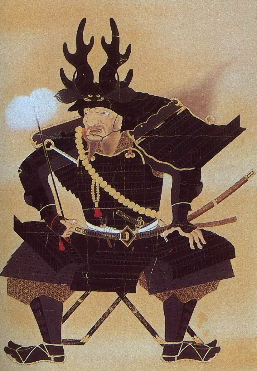 Portrait of Honda Tadakatsu. He was a samurai, general who served Tokugawa Ieyasu. "Paper book by Tadakatsu Ikeda" A portrait drawn by Seki after the Battle of Hara. After the battle, Seki lamented that Tadakatsu was in a time of no contention and had lost his place of activity, and ordered the painter to draw his portrait of this armor figure. It is also said that he tried again eight times. Also, the armor worn when painting this portrait remains.